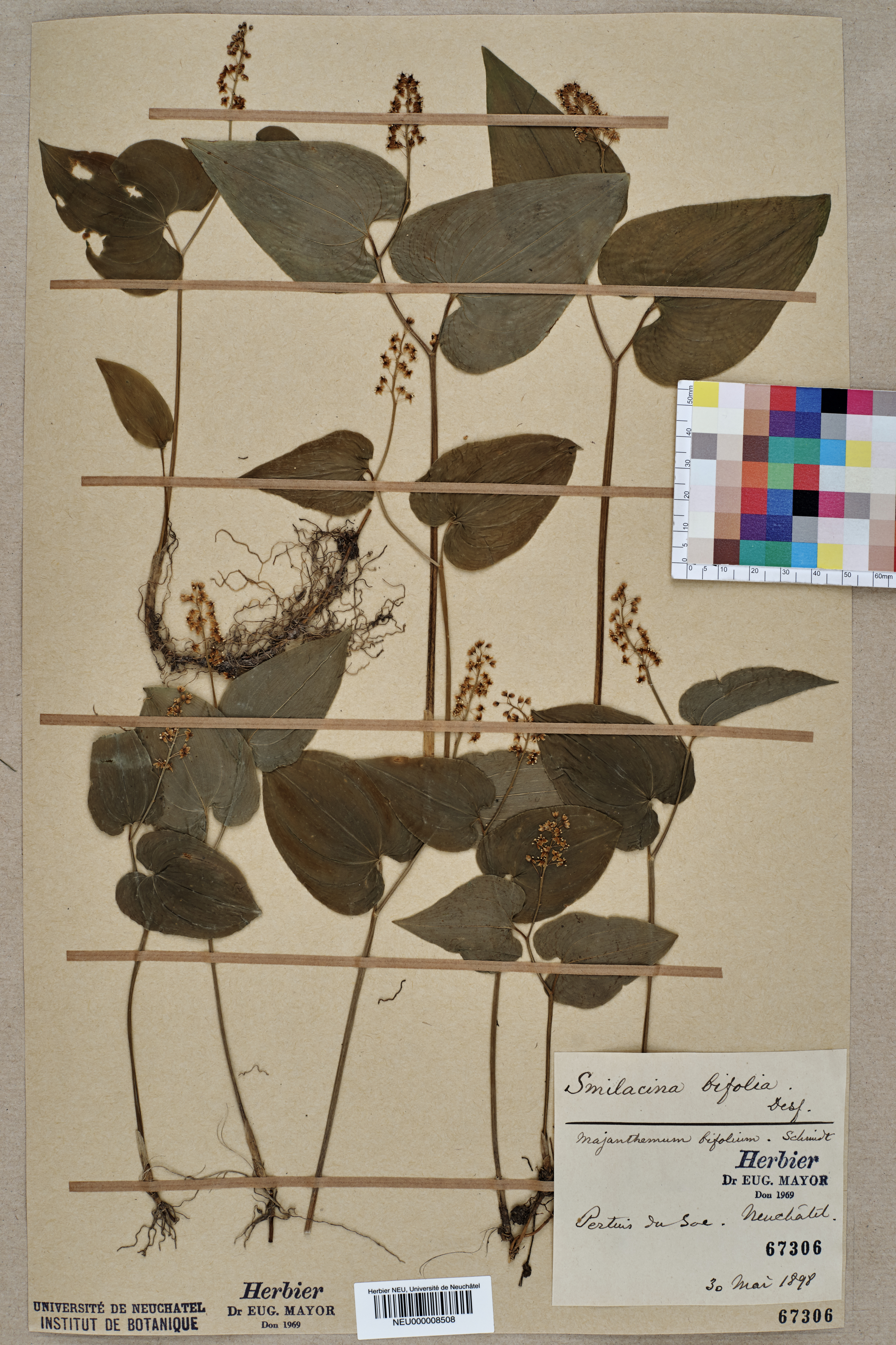 Dried pressed specimen of Maianthemum bifolium